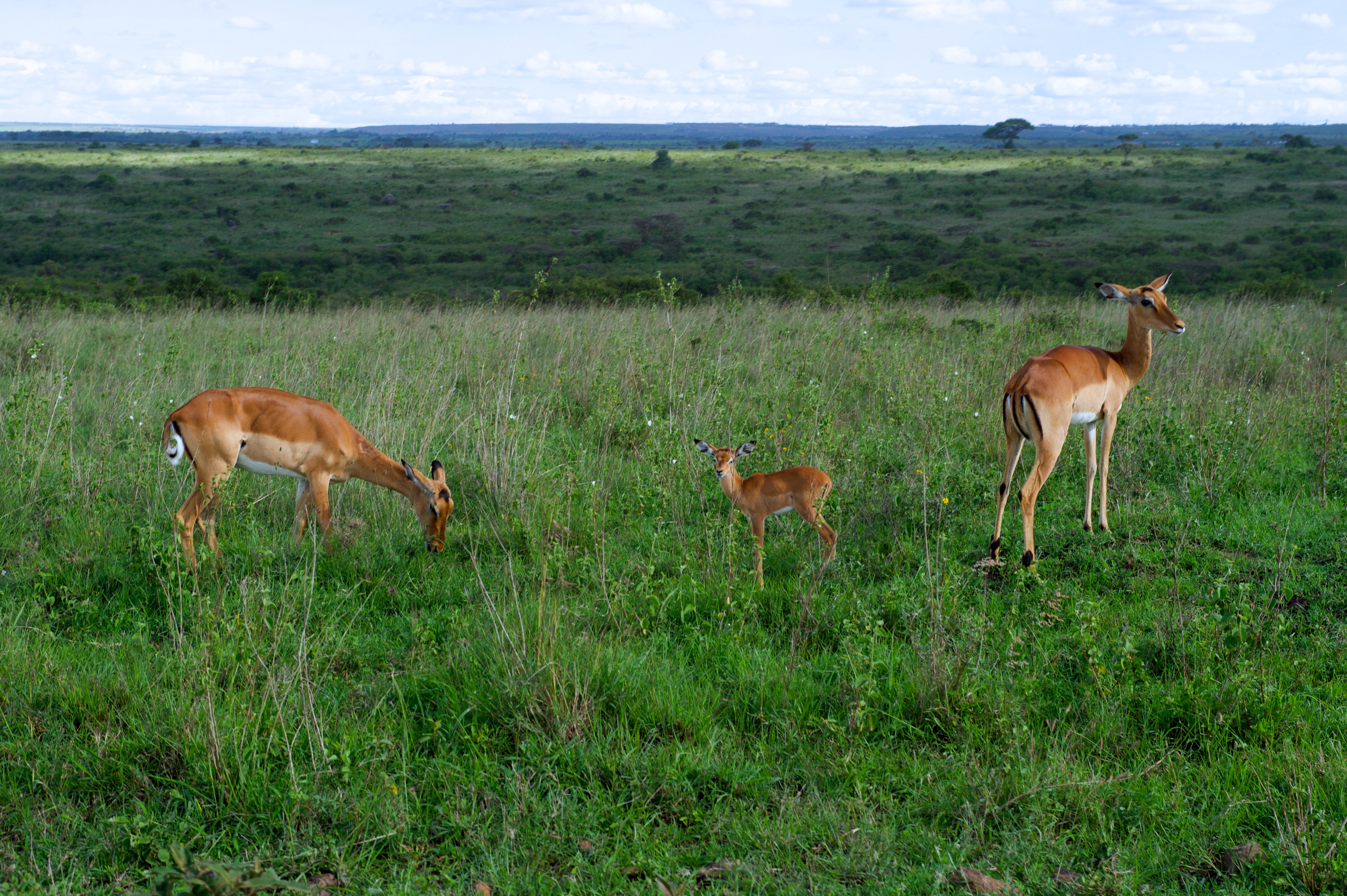 Two female and one newborn impala stand in a field in Nairobi National Park in Nairobi, Kenya, on May 3, 2015, as seen while U.S. Secretary of State John Kerry made a wildlife tour and visited the Sheldrick Elephant Orphanage before a series of government meetings. [State Department Photo/Public Domain]